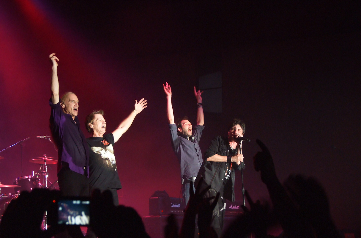 Mr.Big at Festivalna Hall, Sofia, Bulgaria.